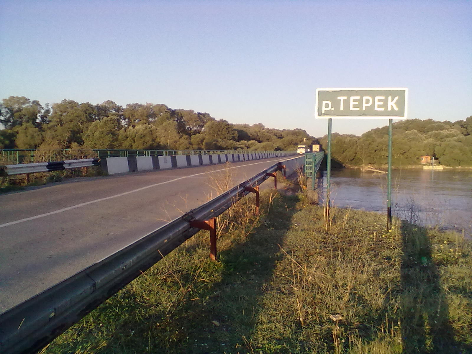 Terek River and bridge Greben